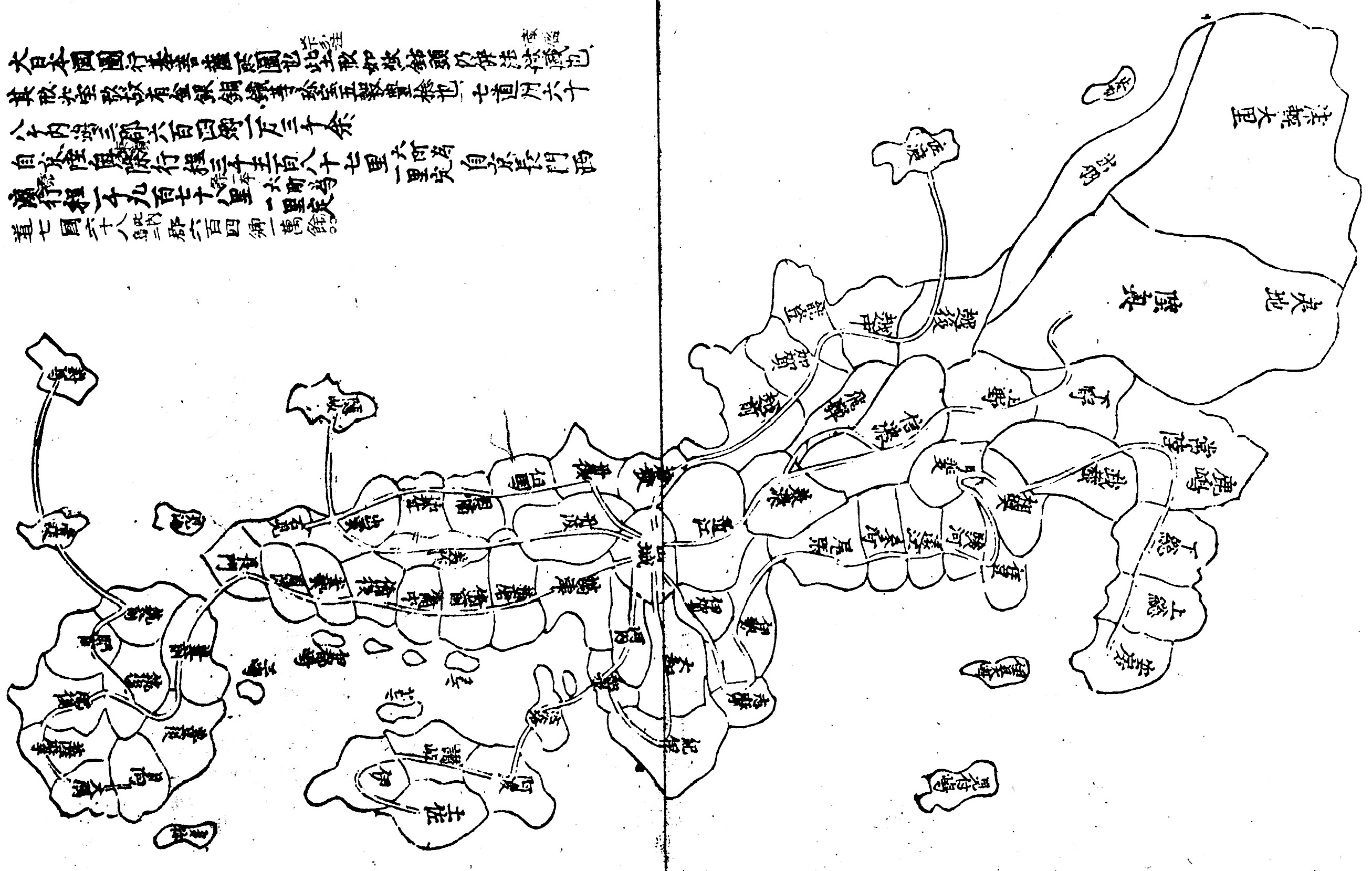 Gyôki-type map of Japan